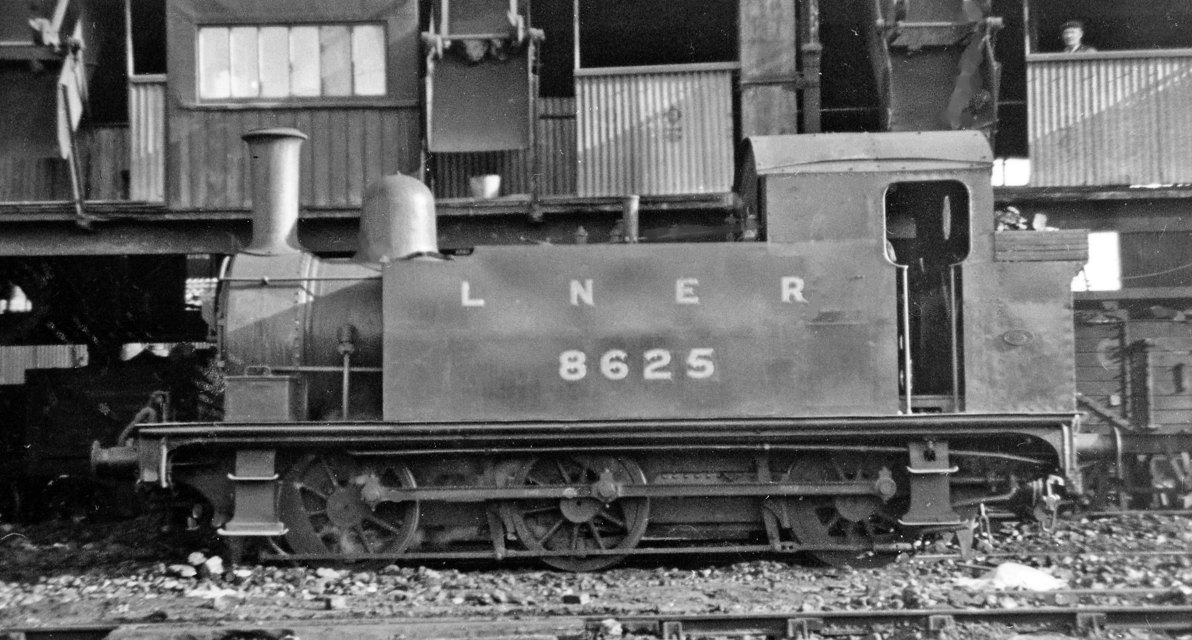 Ex-Great Eastern 0-6-0T at Stratford Locomotive Depot. View eastward at the coaling-stage of the Tank Engine Shed. No. 8625 (formerly No. 7059) was one of about 70 0-6-0T's based at Stratford. It was built in 1904 and withdrawn in 1959; it is seen here shortly before Nationalisation.